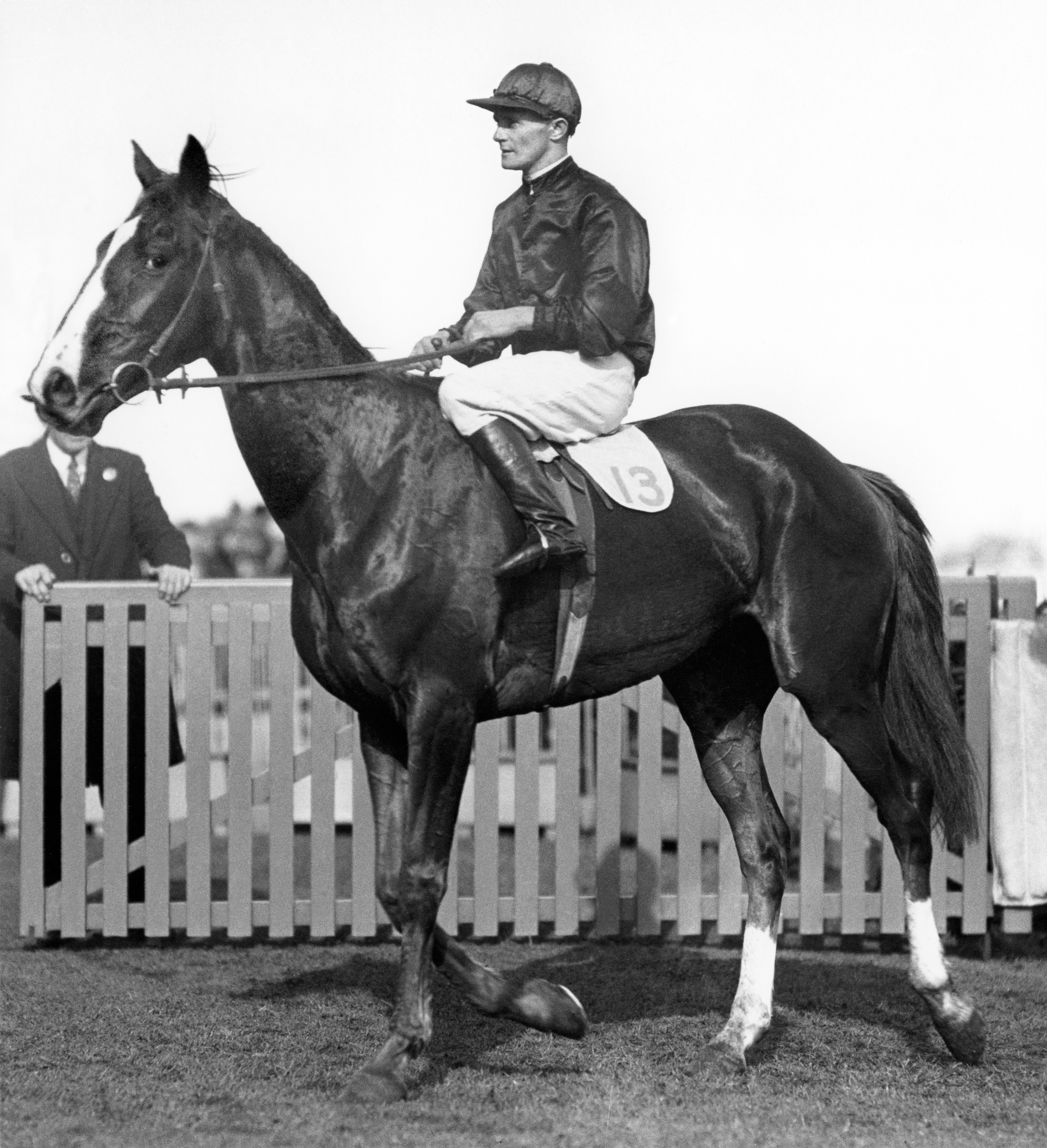 1932 Caulfield Cup photo high resolution scan from original digitally optimised